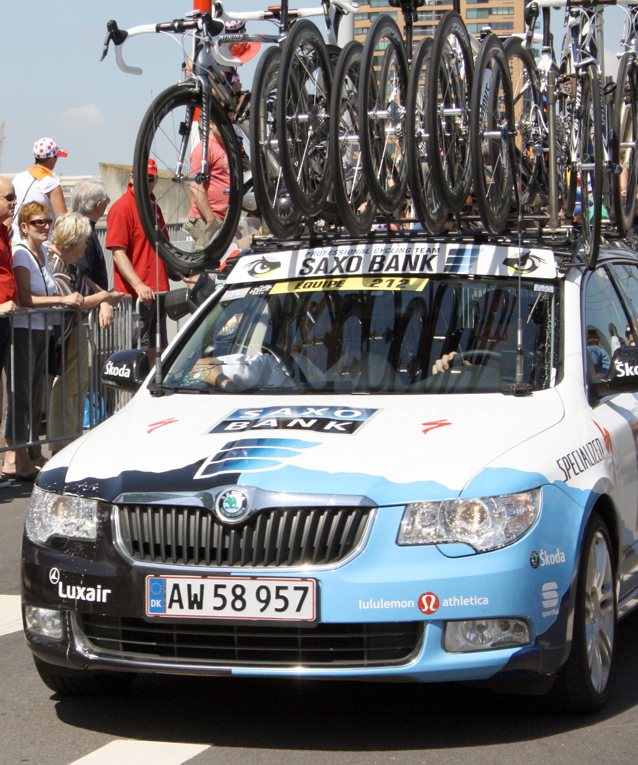 Saxo Bank team car at the start of the first stage of the 2010 Tour de France in Rotterdam